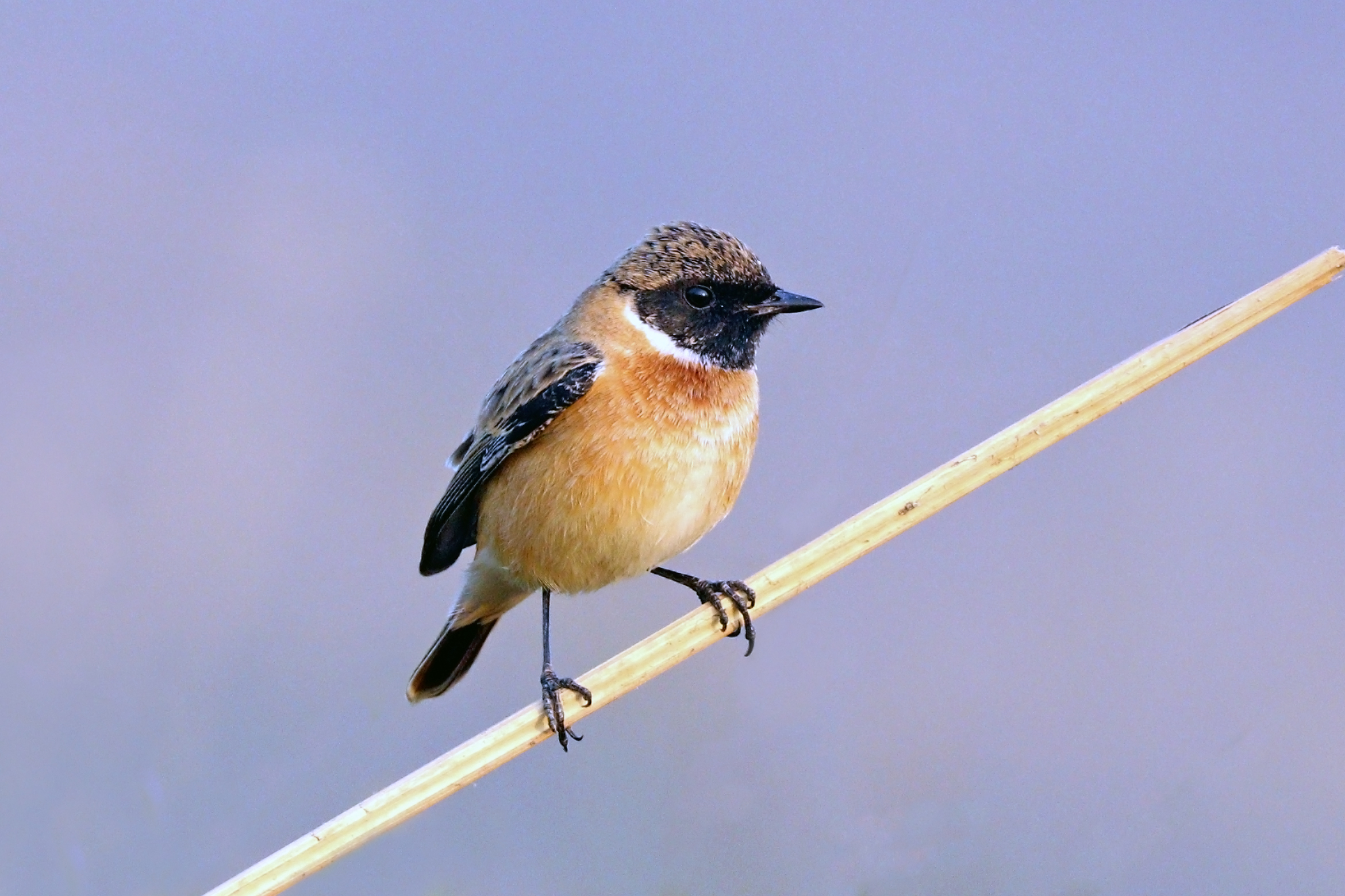 Siberian stonechat (Saxicola maurus maurus) male non-breeding, Salai, UP, India